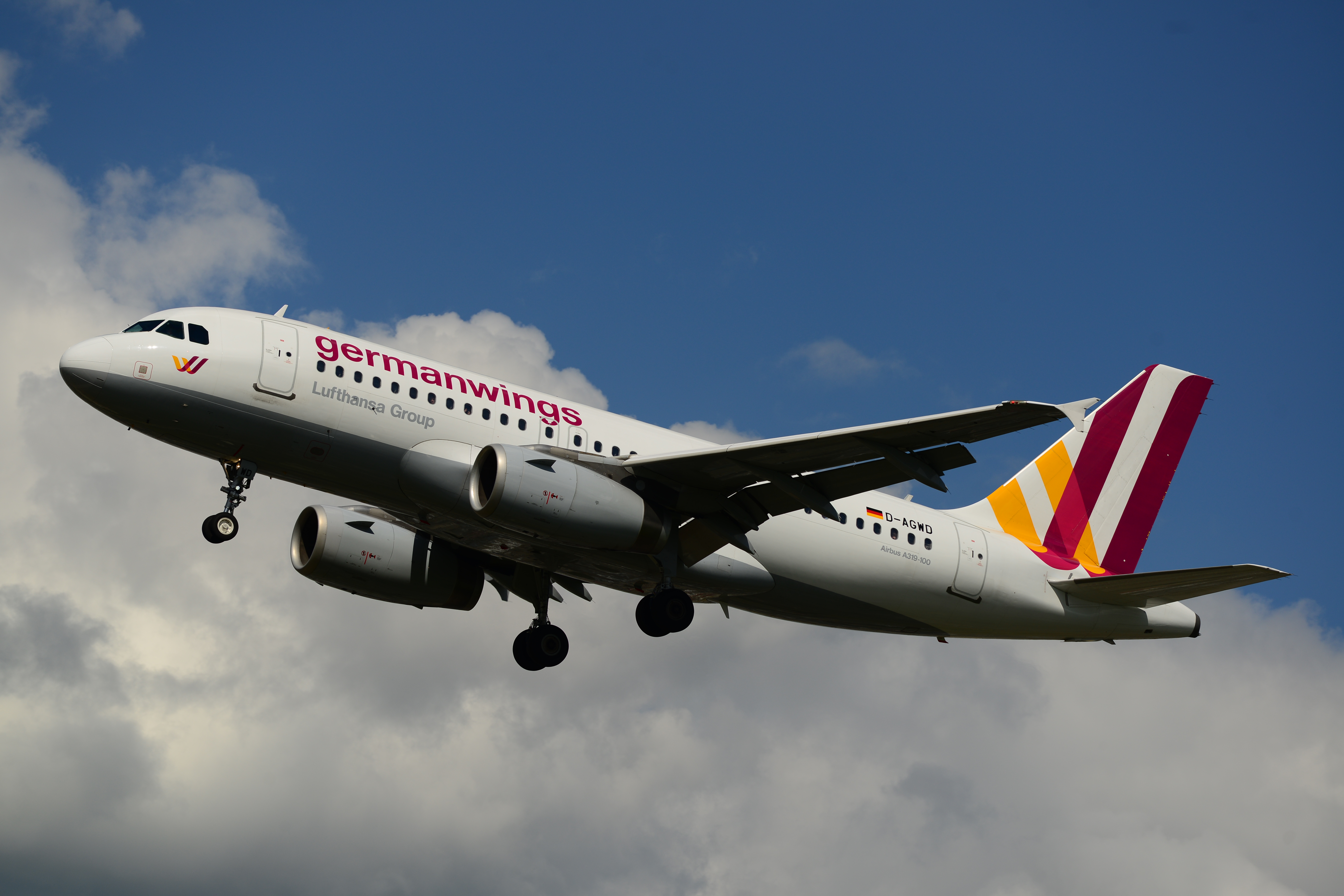 Germanwings, D-AGWD Airbus A319